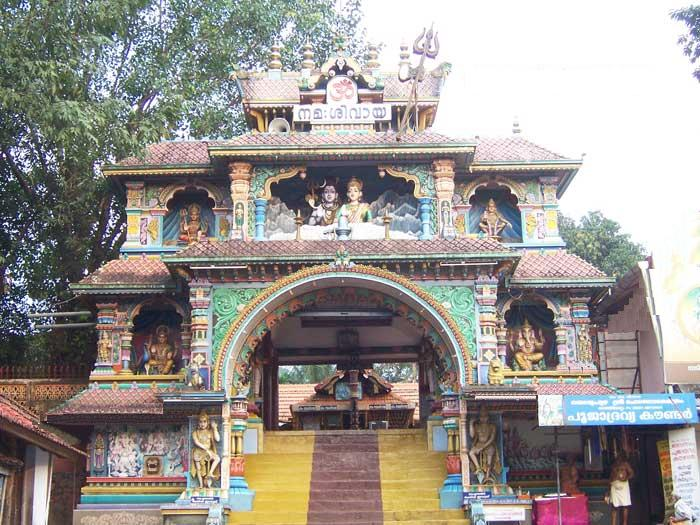 Kanjiramattam Temple